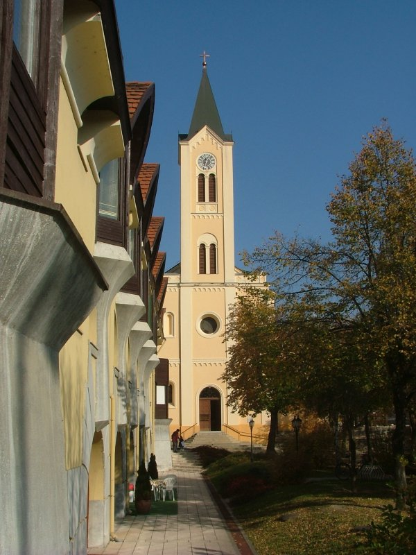 Place: Paks, Hungary, Jesus's Heart church This is a photo of a monument in Hungary, Identifier: -2961 This is a photo of a monument in Hungary, Identifier: -2878